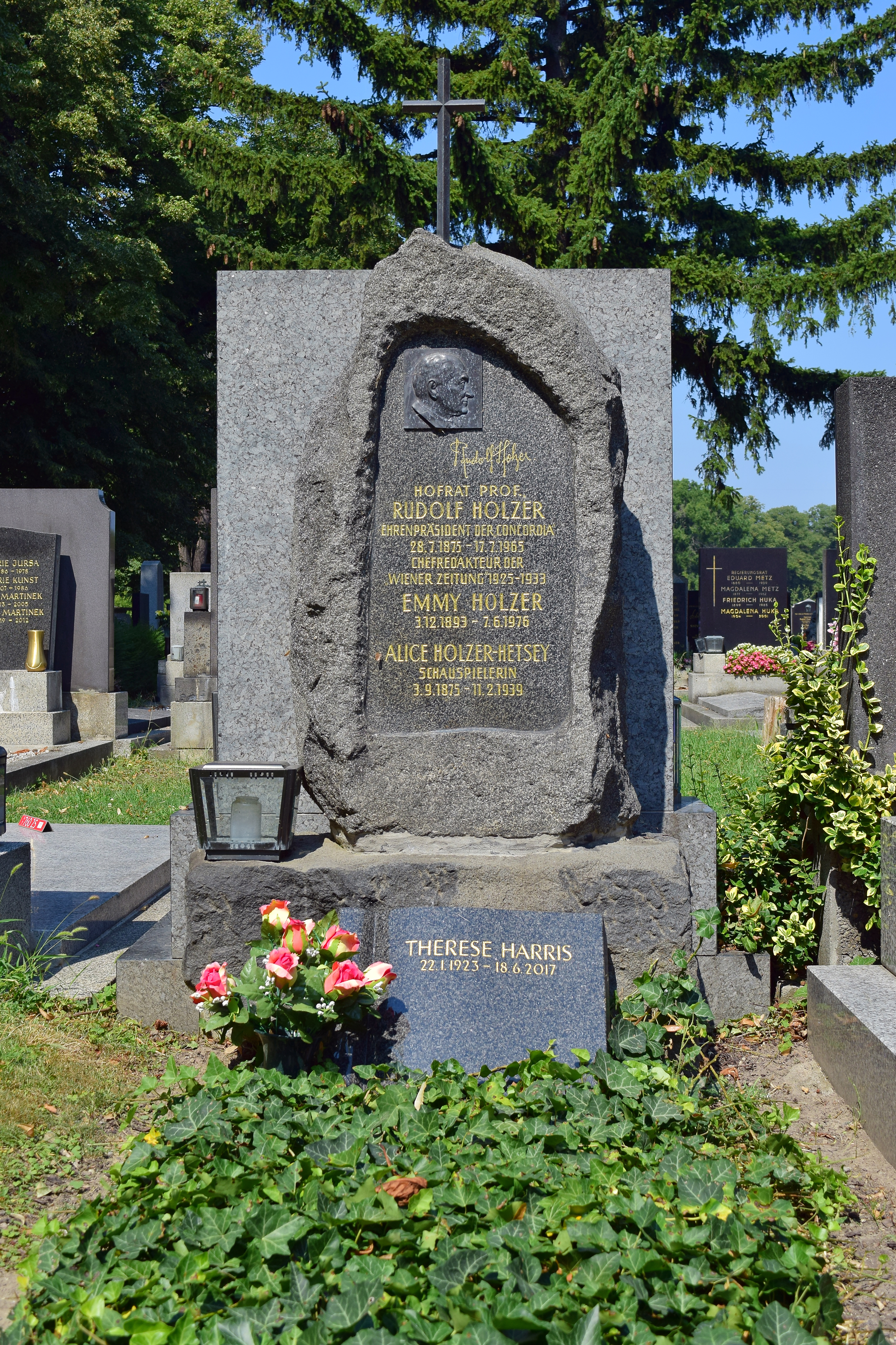 Grave of honor of the Austrian writer Rudolf Holzer at the Wiener Zentralfriedhof